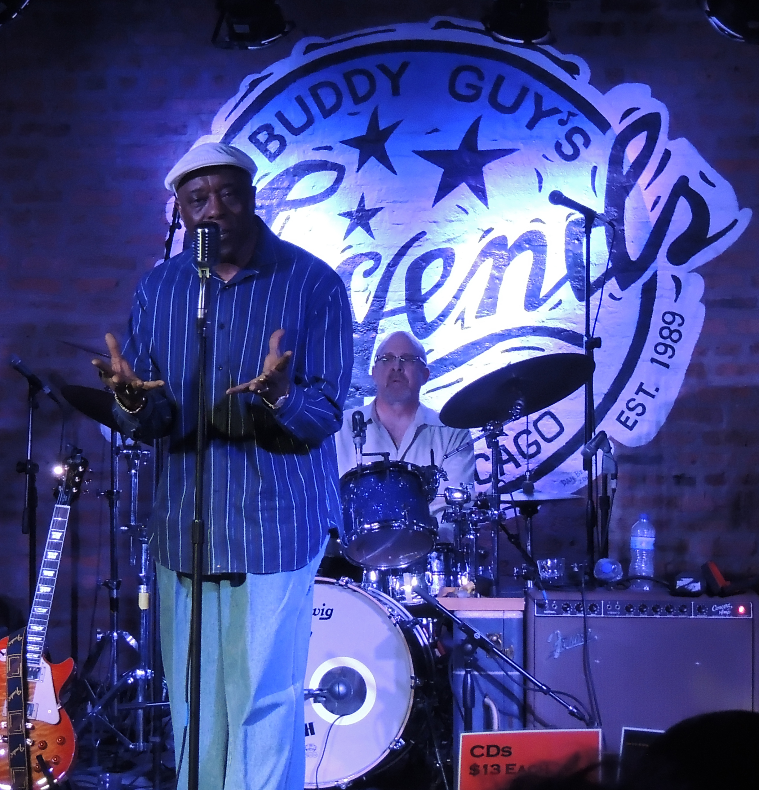 Buddy Guy performing at his own club, Legends, Chicago, May 2013